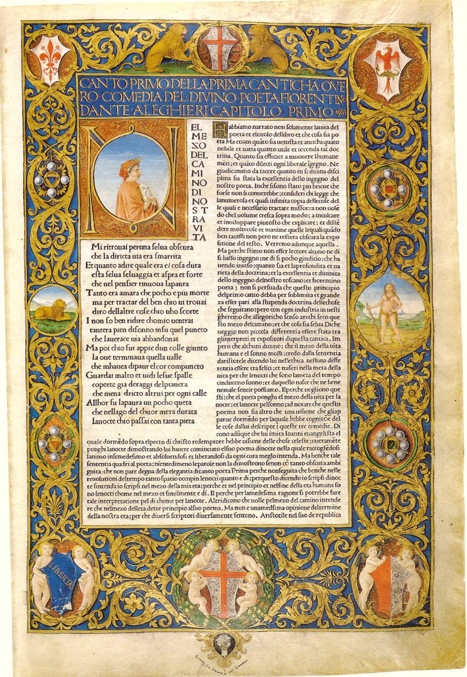 The first page of Cristoforo Landino’s interpretation of Dante’s Divine Comedy in the dedication copy of the first edition of his commentary on Dante’s poem, dedicted to the Signoria of Florence. Incunable: Florence, Biblioteca Nazionale Centrale, Banco Rari 341, fol. a1r.